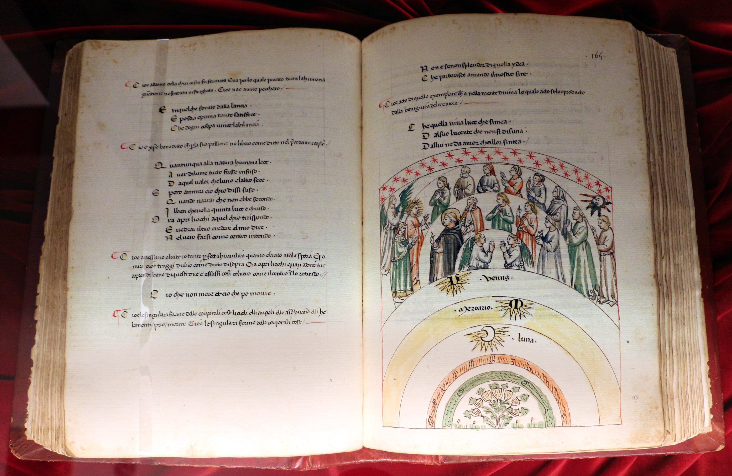 Collections of the Biblioteca Medicea Laurenziana